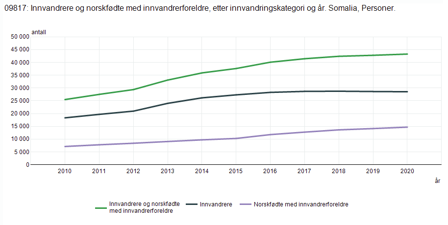 Black - Somali immigrants Purple - Descendants of Somali immigrants orn in Norway Green - Total of the above two